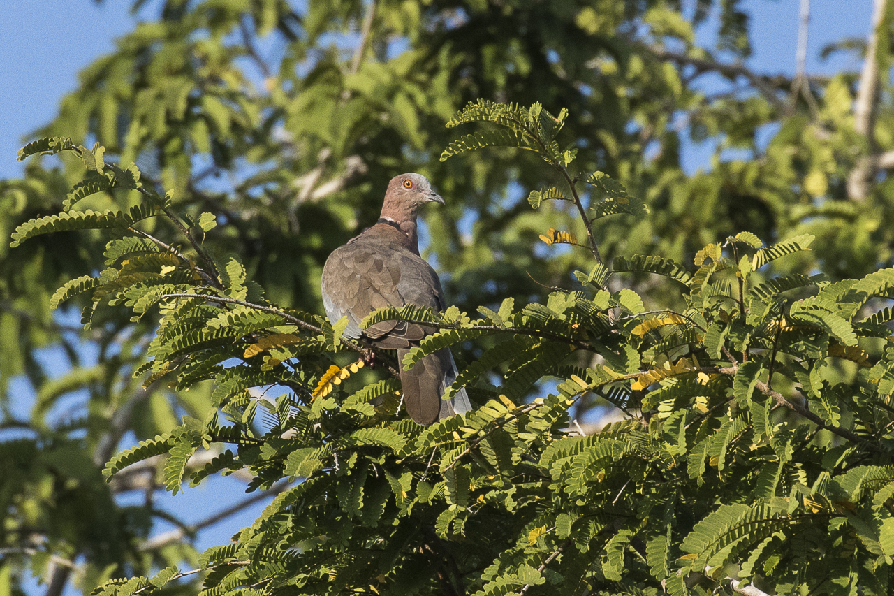 Island Collared Dove - Baluran NP - East Java_MG_8086